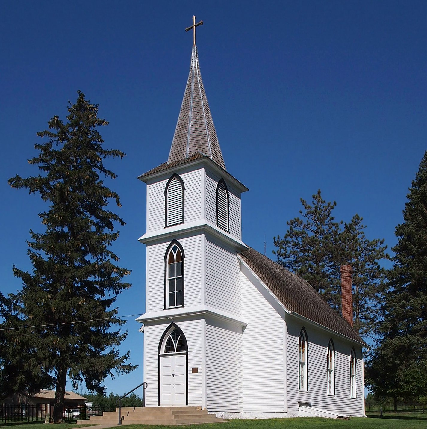 Christdala Evangelical Swedish Lutheran Church (Den Svenska Evangeliska Lutherska Christdala Forsamlingen), 4695 Millersburg Rd, Forest Township, Minnesota, USA. Viewed from the southeast.